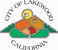 Logo of the city of Lakewood, California